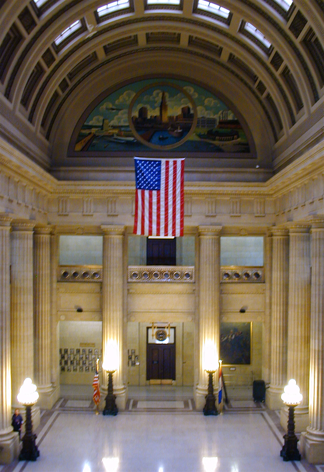 The rotunda of Cleveland City Hall